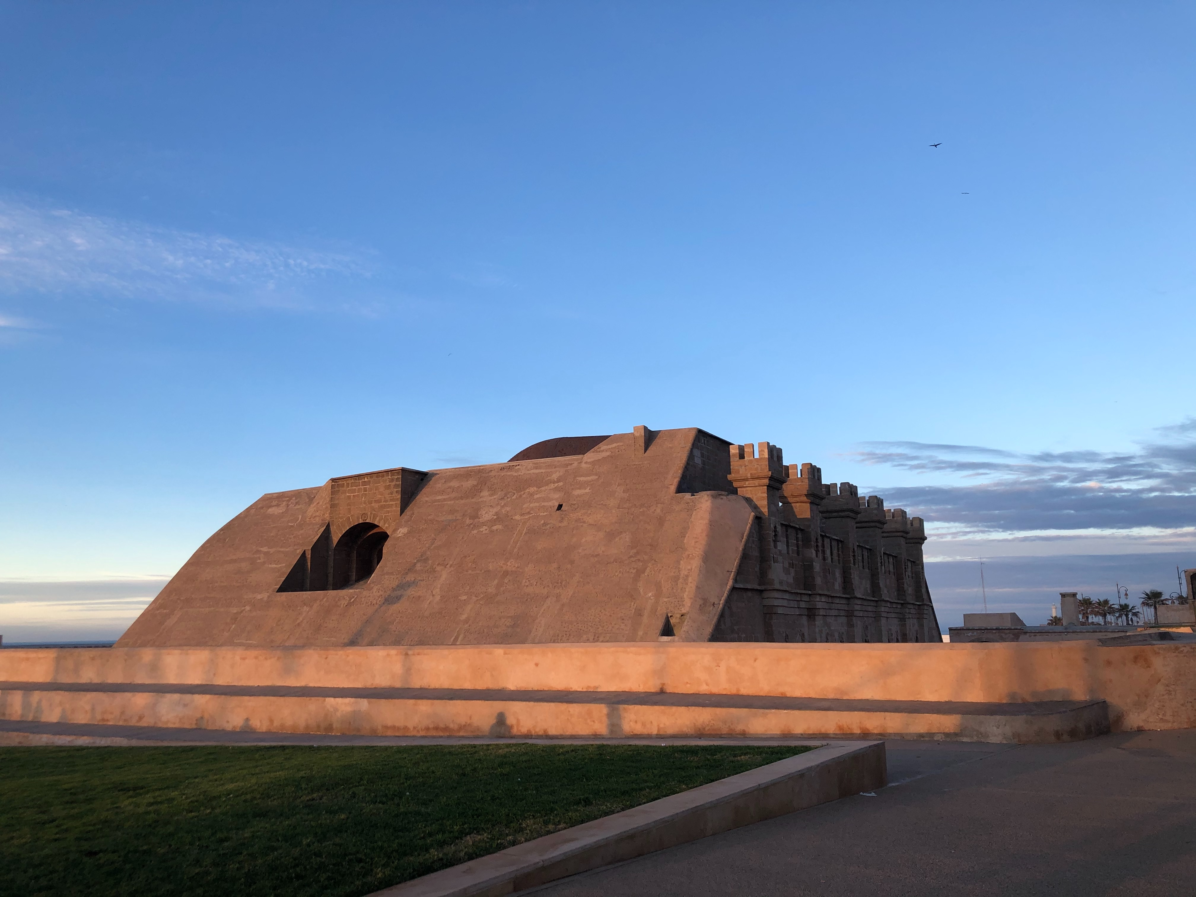 The National Photography Museum in Morocco, at the old Burj Kebir Fortress (Fort Rottembourg)